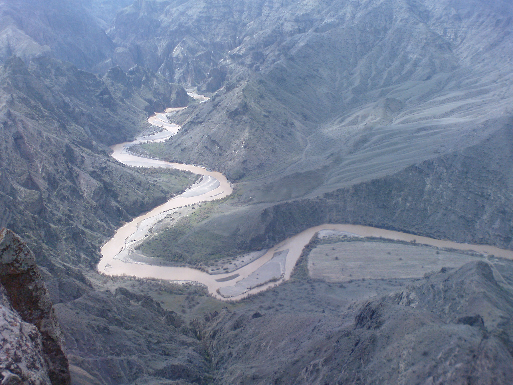 Qizil Üzan a river in Iran